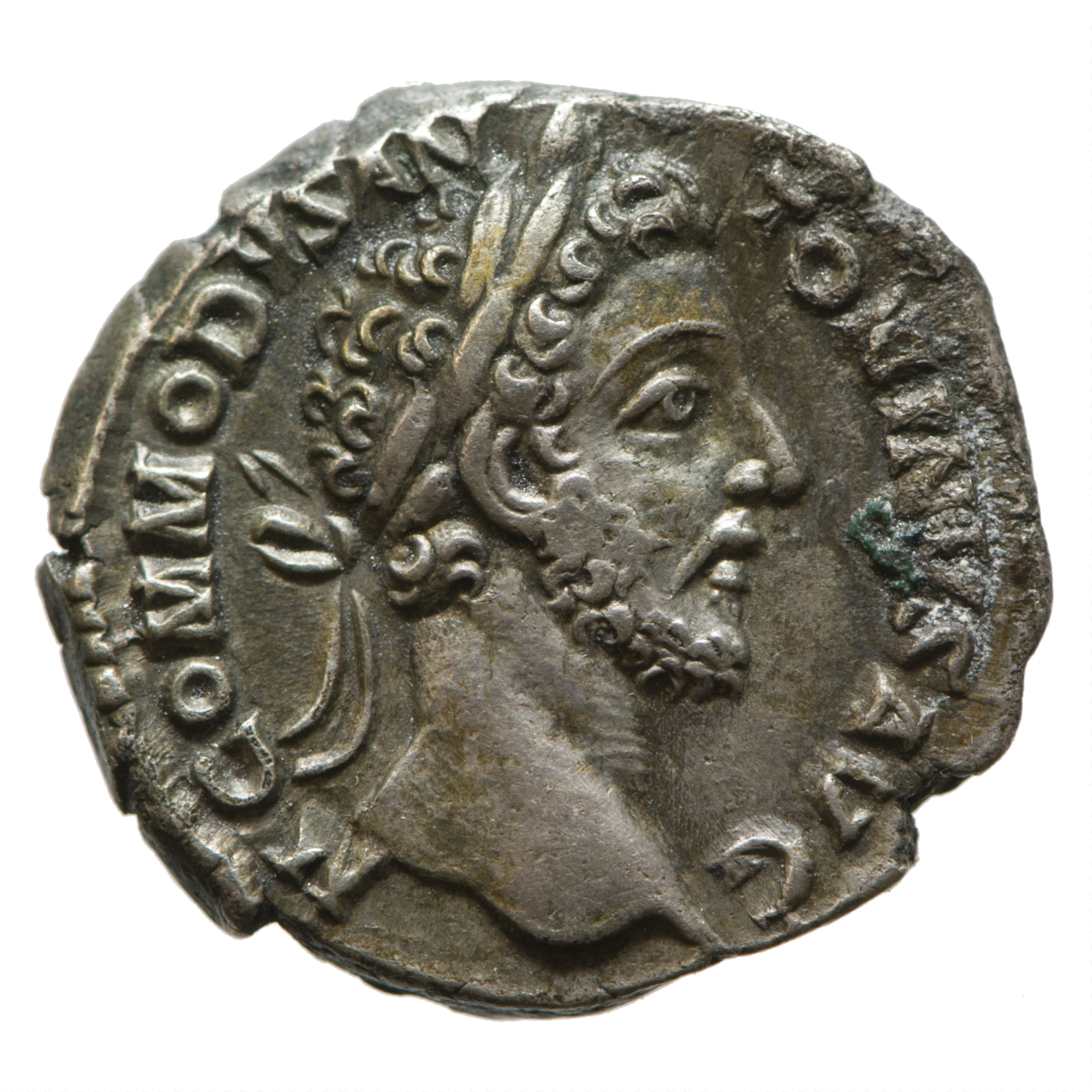 Obverse (front) of a Denarius of Commodus, showing Head right laureate.